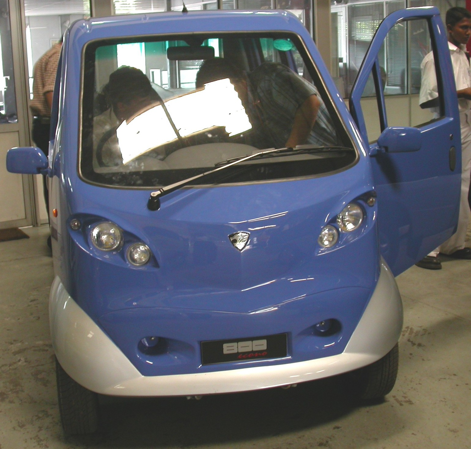 Micro Privilege 2004. Image was taken at Micro Card Showroom at Peliyagoda, Sri Lanka before I pay advance to buy this car.